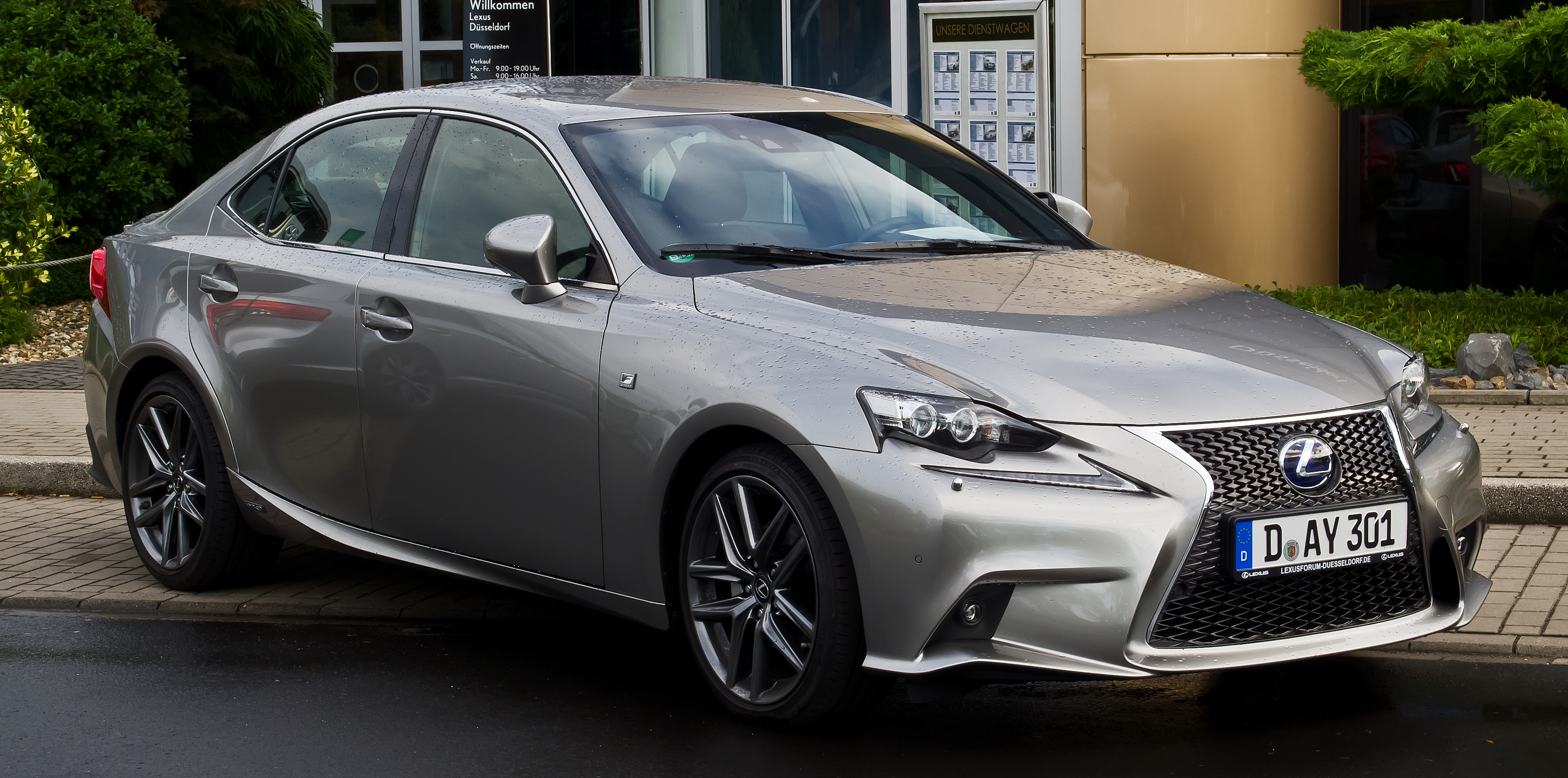 Lexus IS 300h F Sport (III)